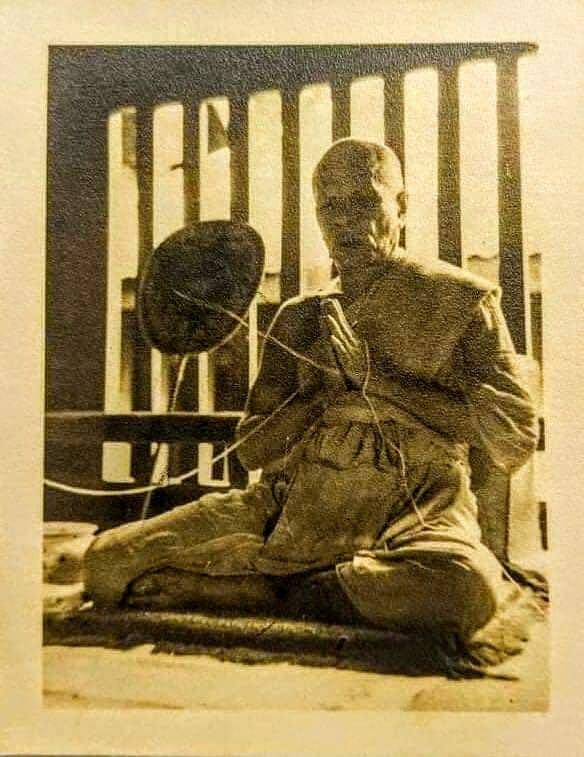 an old image of luang pu sodh chanting